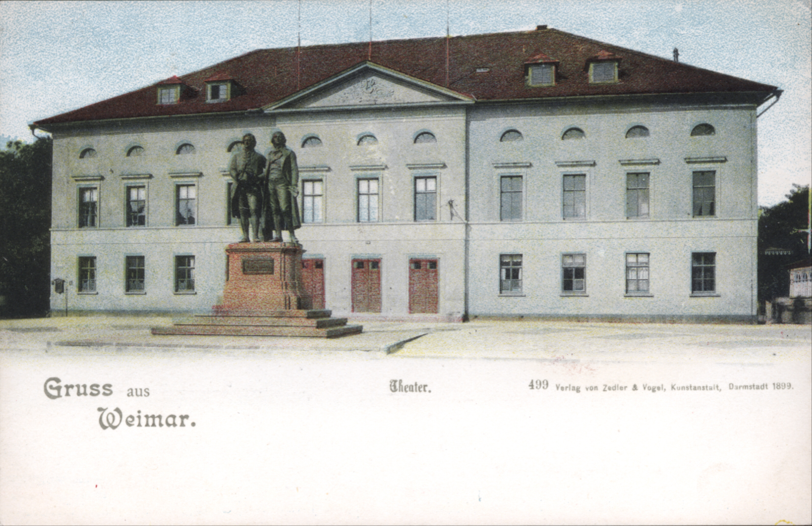 1899 postcard showing the Hoftheater in Weimar, Germany; this building has been replaced by the present German National Theater. The statue in the square is the 1857 Goethe-Schiller Memorial by Ernst Rietschel. The postcard was published by the Zedler & Vogel Co. in Darmstadt.